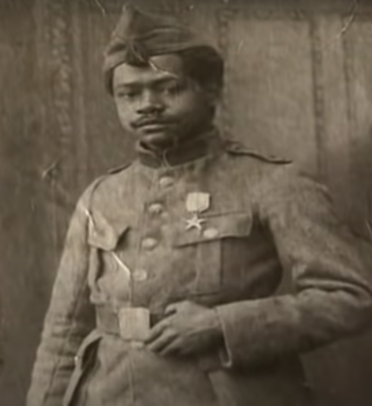 Panda Farnana enlisted in the Belgian army in 1914 (cropped photo)